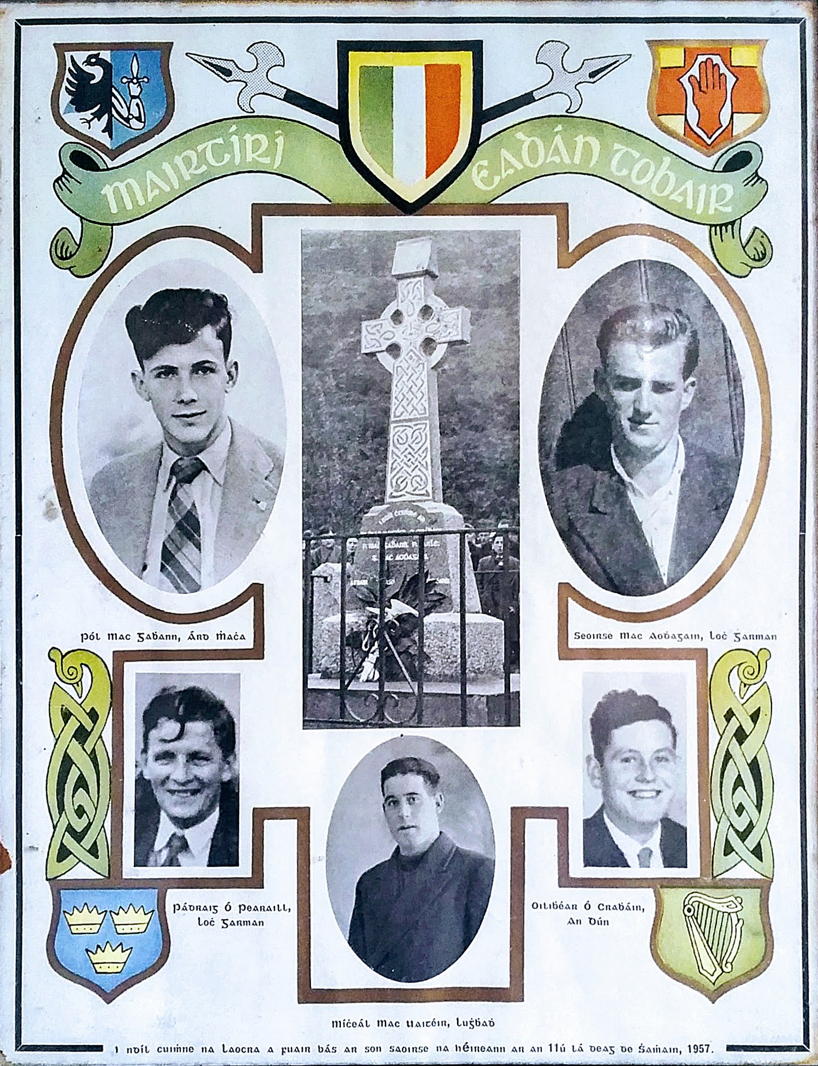 An original remembrance print to commemorate the 5 men killed at Edentubber. This particular item was owned by the sister of Vol. Oliver Craven.